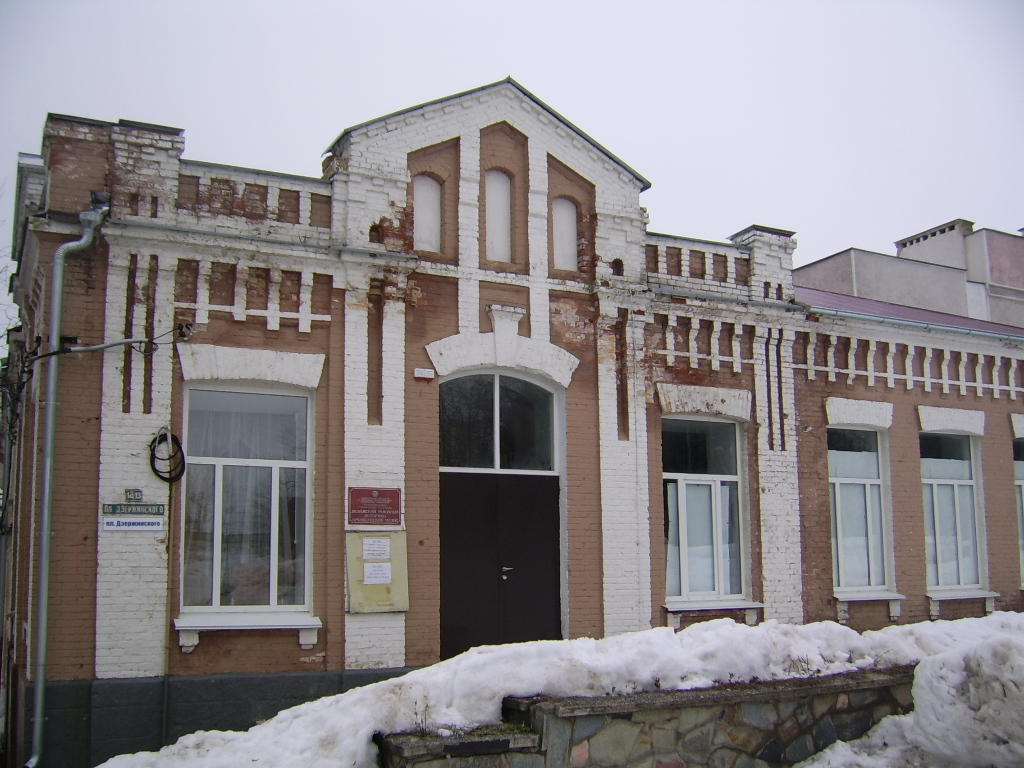 Velizh